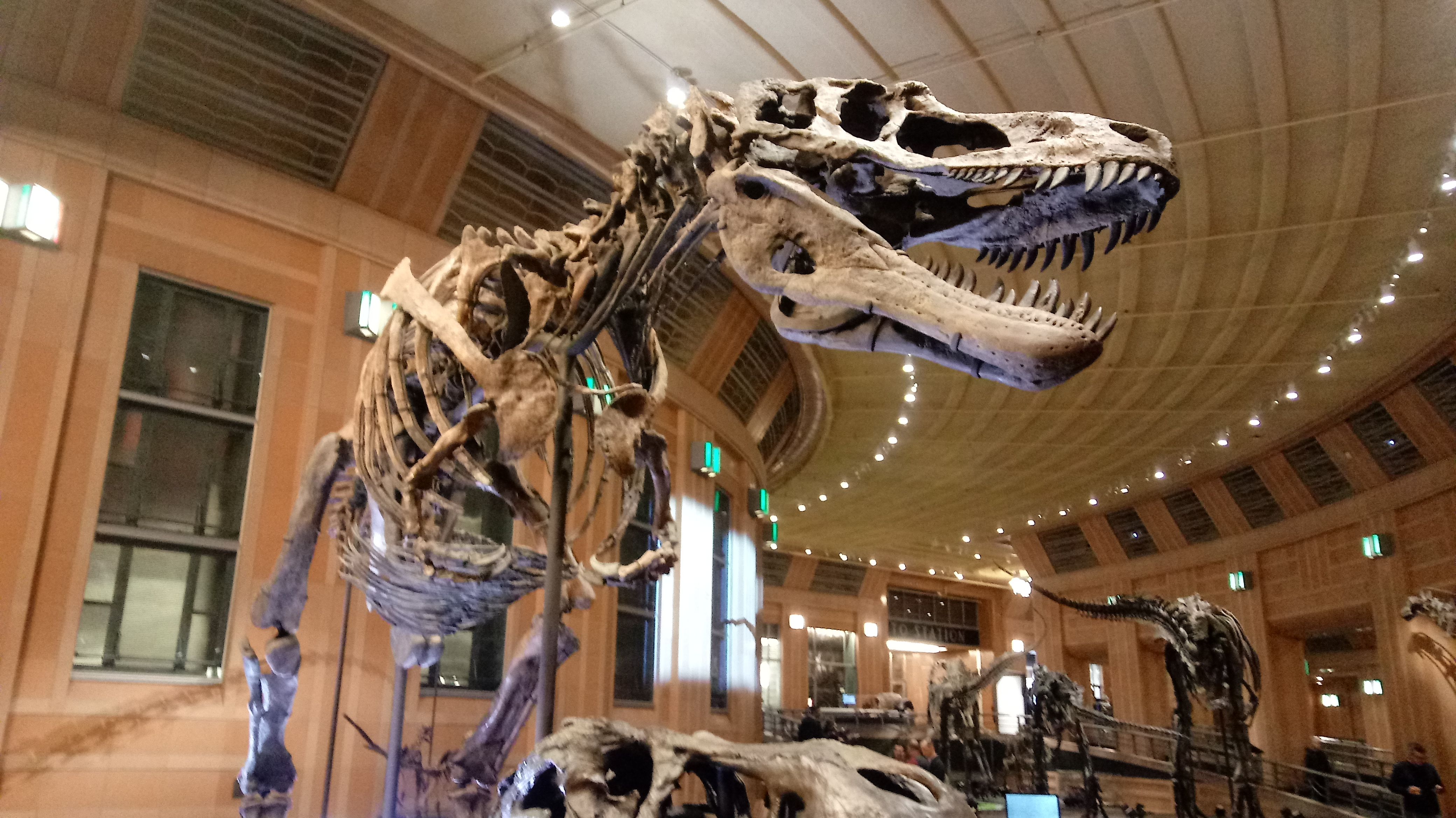 Skeleton of the dinosaur Daspletosaurus horneri at the refurbished Cincinnati Museum Center at Union Terminal's Museum of Natural History